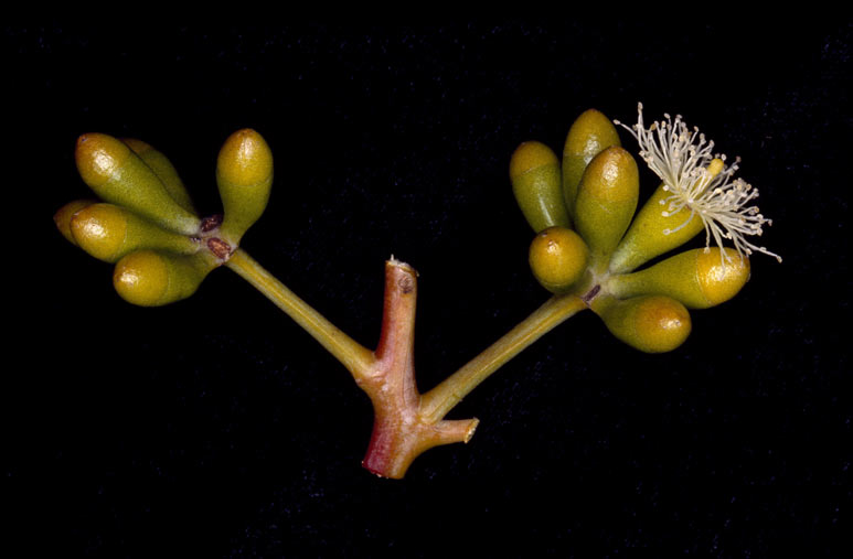 Flower buds of Eucalyptus trivalva in the Great Victoria Desert, west of the Western Australia/South Australia border